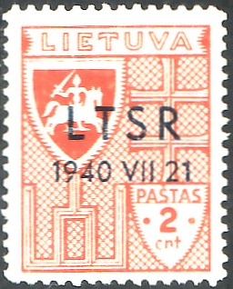 Stamp of Lithuania; 1940; Soviet occupation; definitive stamp of the issue "L.T.S.R." Stamp: Michel: No. 449 (LT) (= No. 408 (1937) with overprint); Yvert & Tellier: No. 382 (LT) (= No 353 (1937) with overprint) Color: red orange with blue overprint Watermark: Lithuania No. 7 (Gediminas gates) Nominal amount: 2 cnt. (Centų) Overprint: blue, double-spaced, L T S R / 1940 VII 21 (L.T.S.R. = "Lietuvos Tarybų Socialistinė Respublika" = Lithuanian for "Lithuanian Socialist Soviet Rebublic") Postage validity: from 21 August 1940 until 15 March 1941